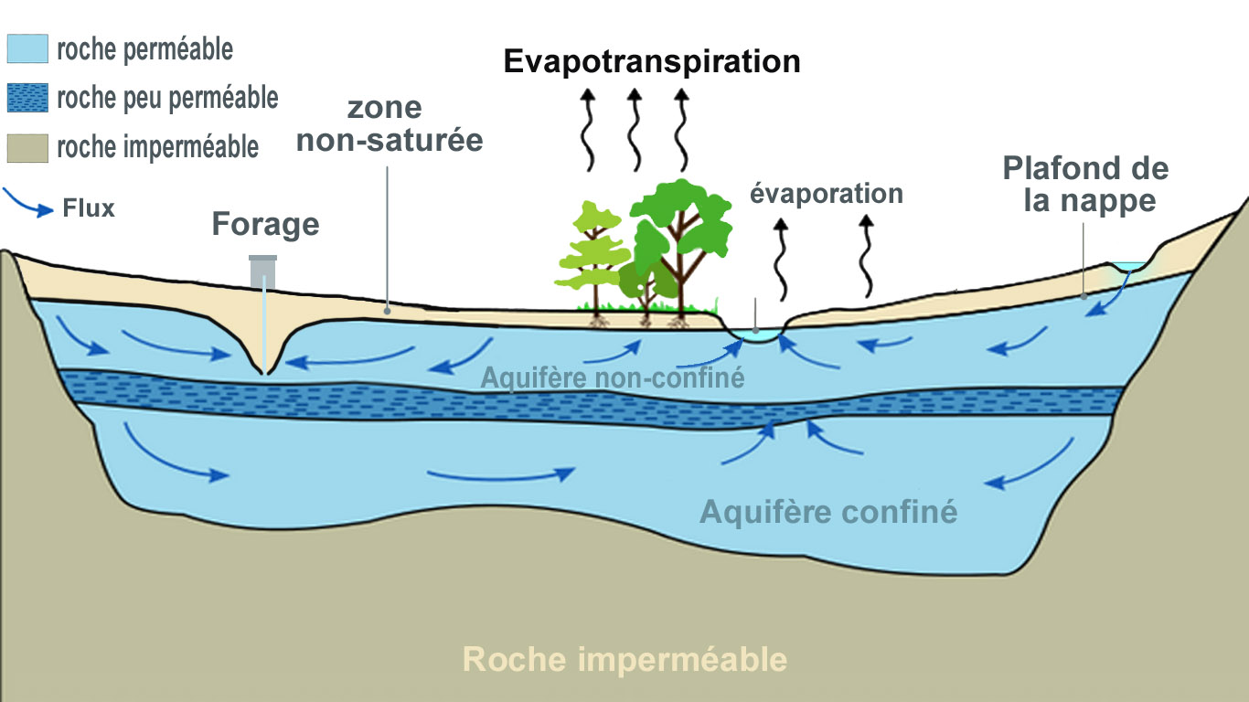 Diagram showing in the Water Cycle some situations and underground flow of water as the Darcy's law helped to understand